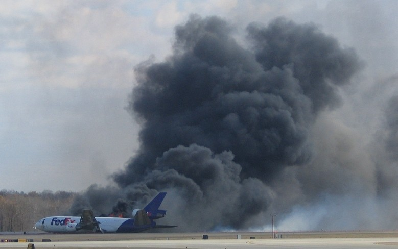 Fedex Flight 647 in flame